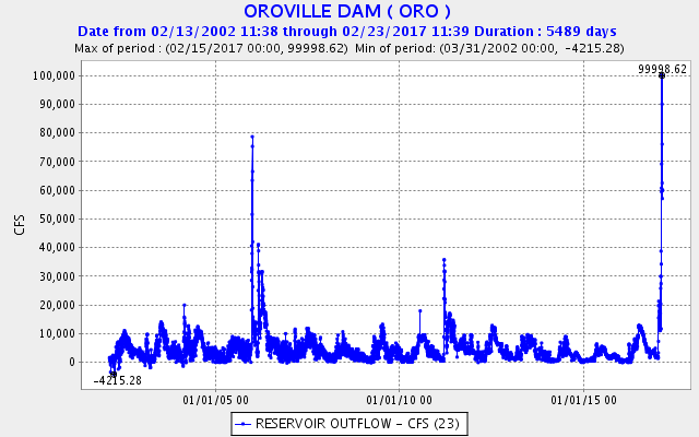 Plot showing Oroville Lake Outflow 2017 - 15 Years